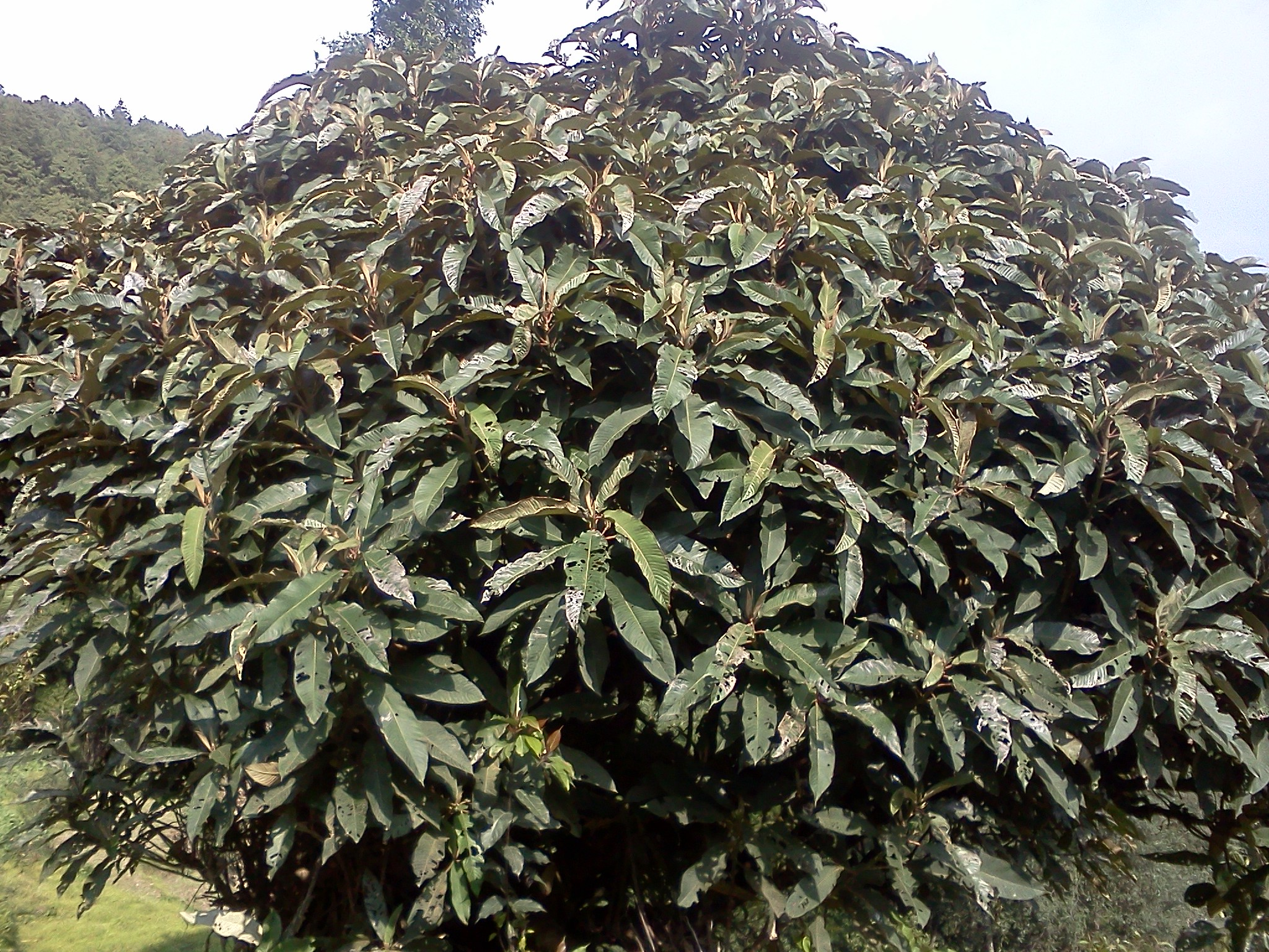 Its a tree , commonly used in Nepal for animal feeding